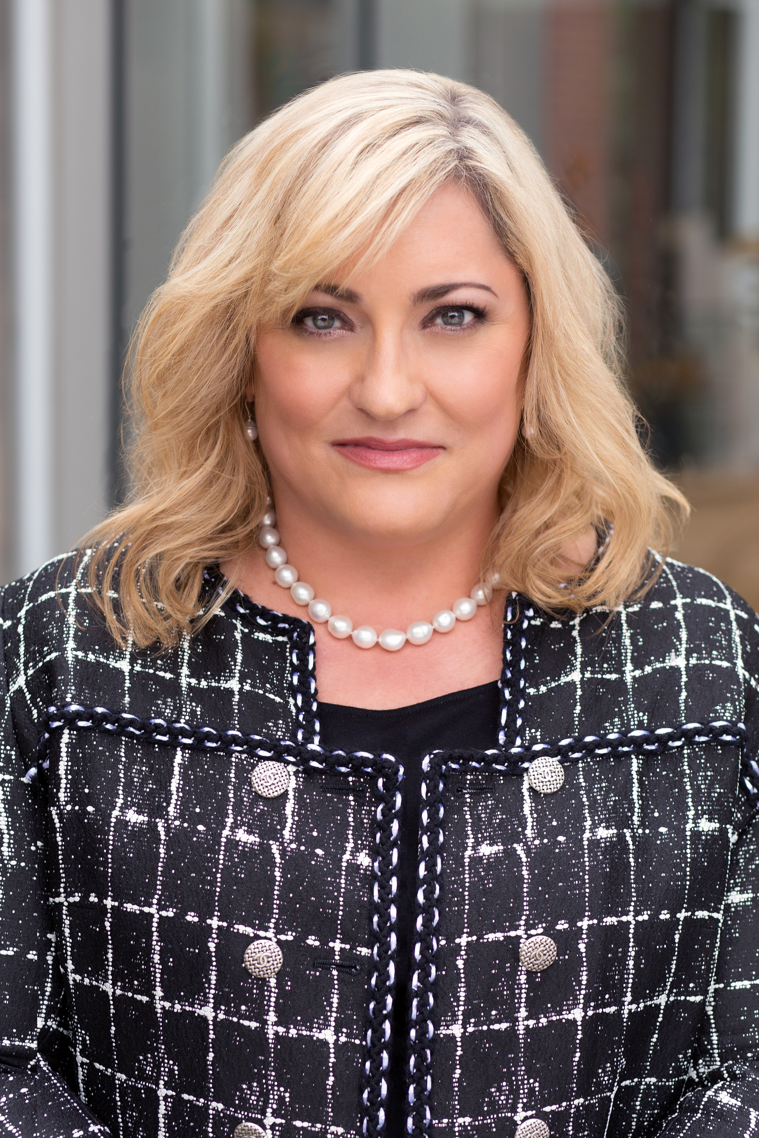 Personal Photograph of Renee James